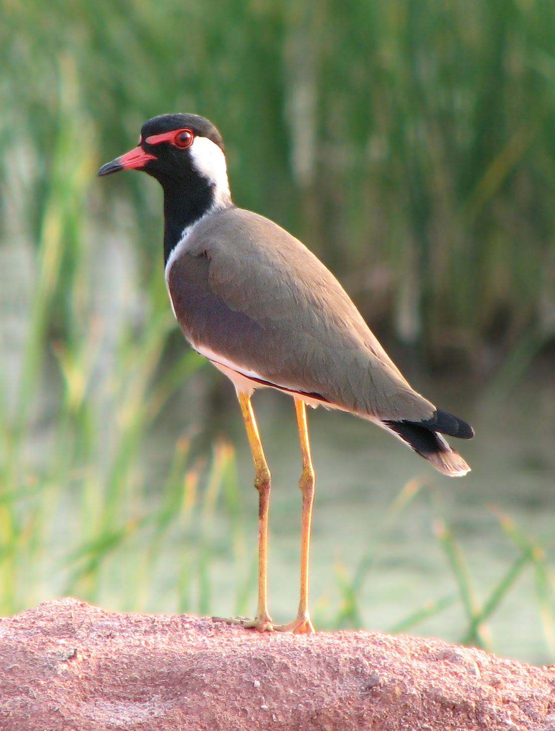 Red-wattled Lapwing Vanellus indicus, Mangalore, Karnataka, India